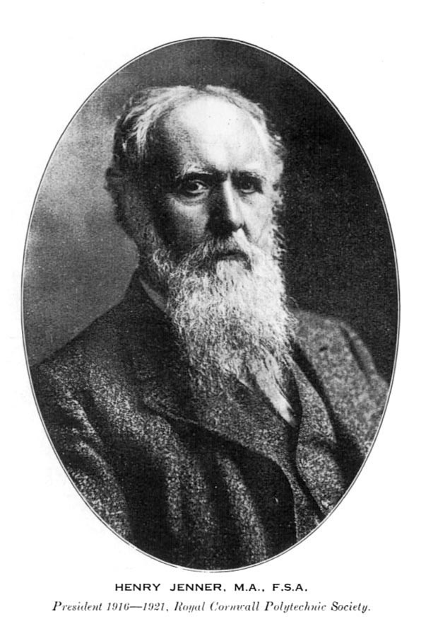 Henry Jenner (1848-1934), Celtic scholar, Cornish cultural activist, and the chief originator of the Cornish language revival. Legend: Henry Jenner, M.A. F.S.A. President 1916–1921, Royal Cornwall Polytechnic Society